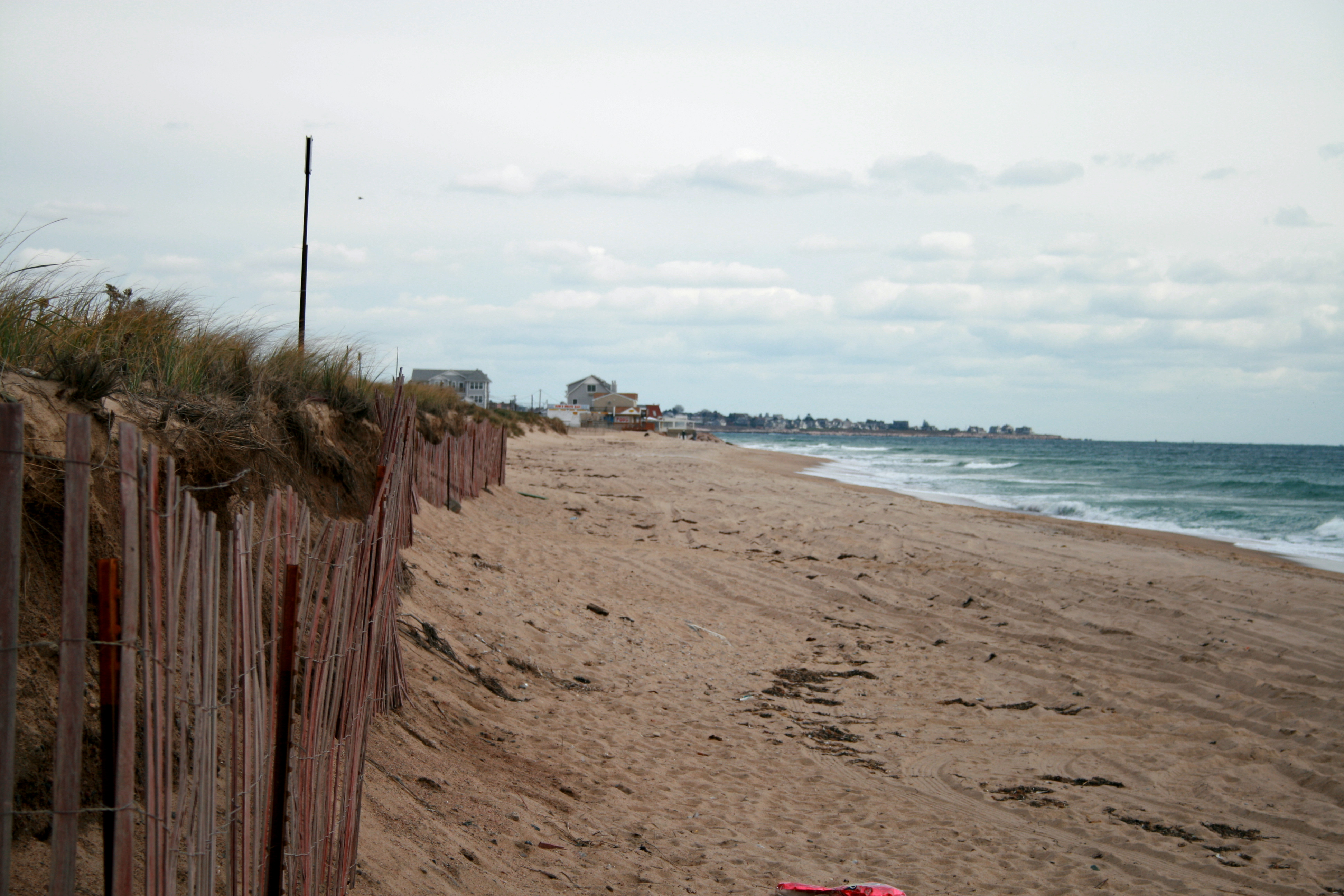 A beach in Westerly, Rhode Island